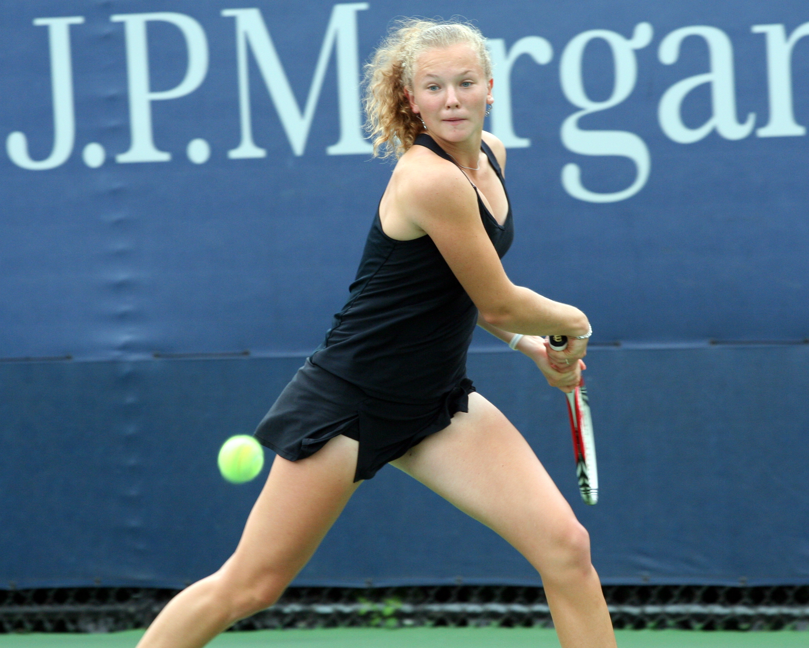 Kateřina Siniaková at the 2013 US Open